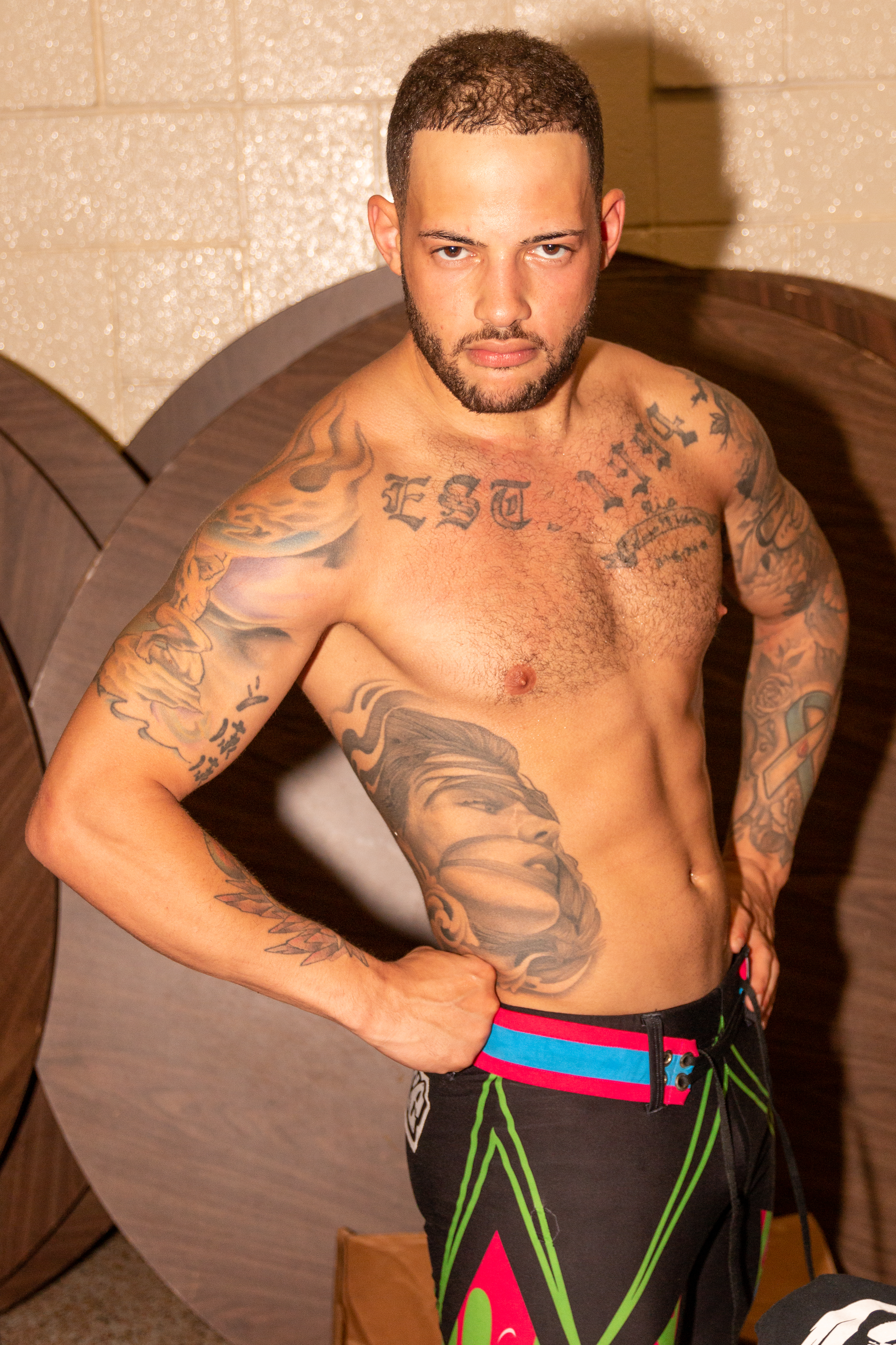 Pro wrestler Trey Miguel posing during intermission at an Alpha-1 Wrestling show at Hamilton, ON